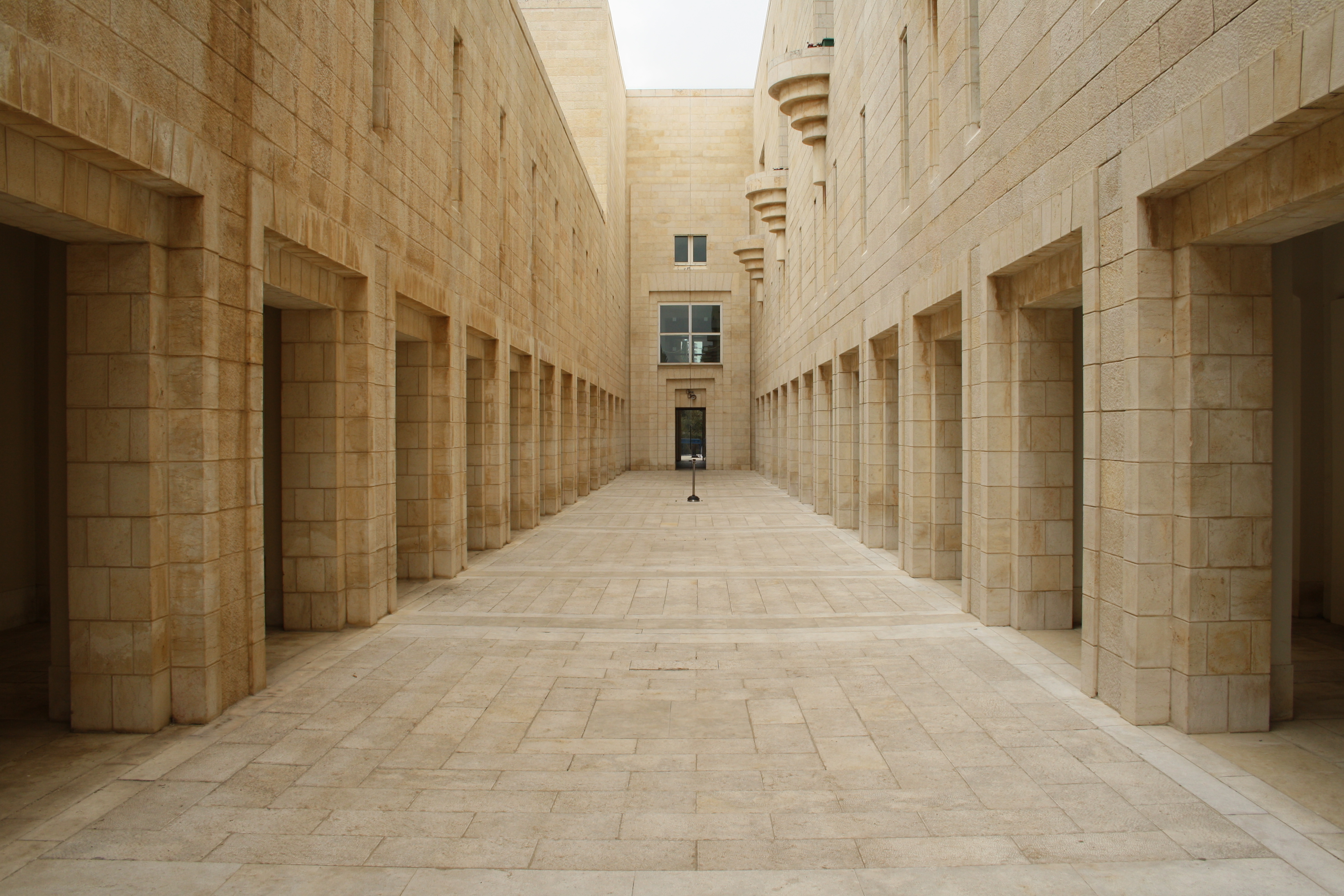 Inside the Supreme Court of Israel, Jerusalem